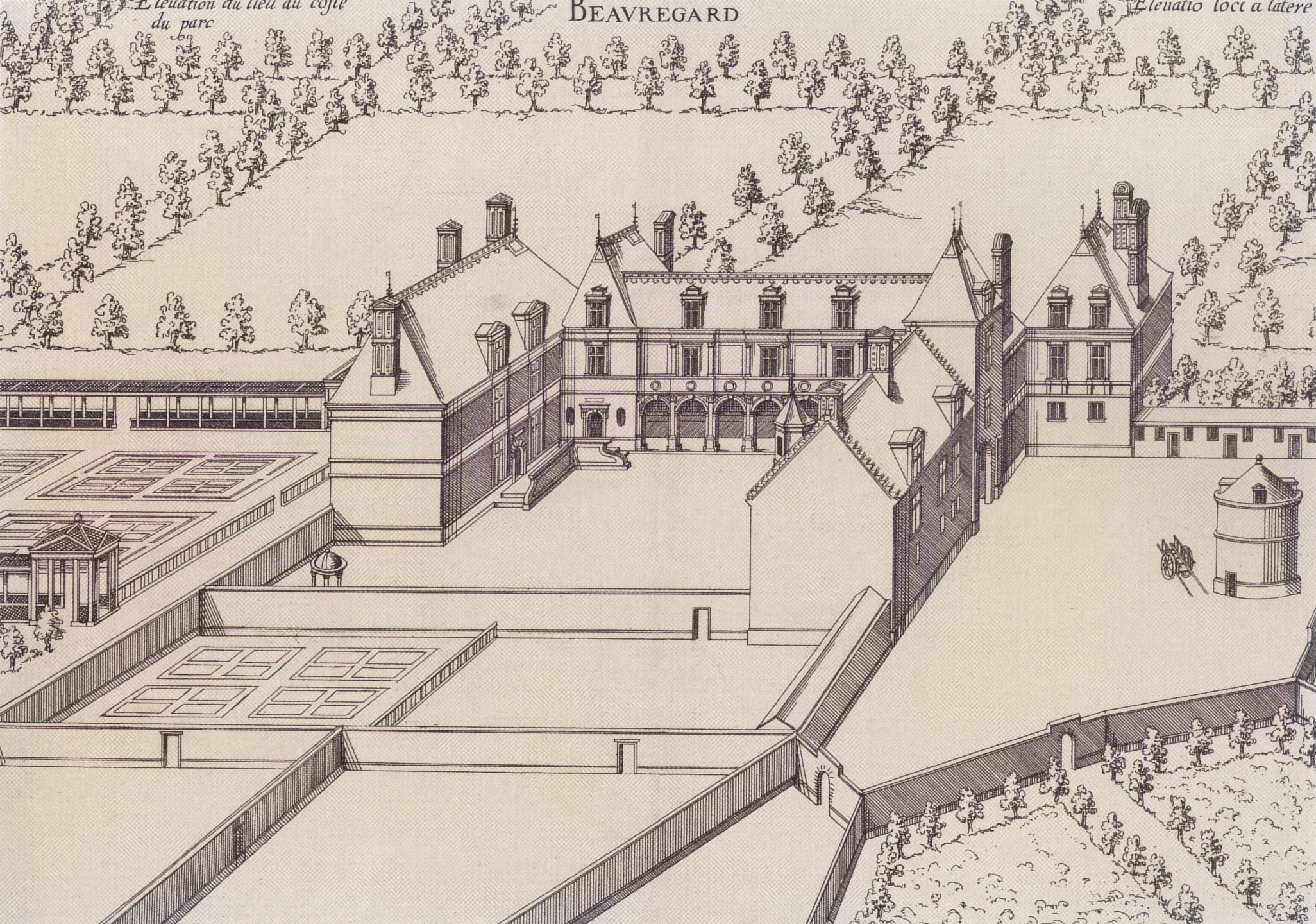 Château de Beauregard in Loir-et-Cher, engraving, 16th century